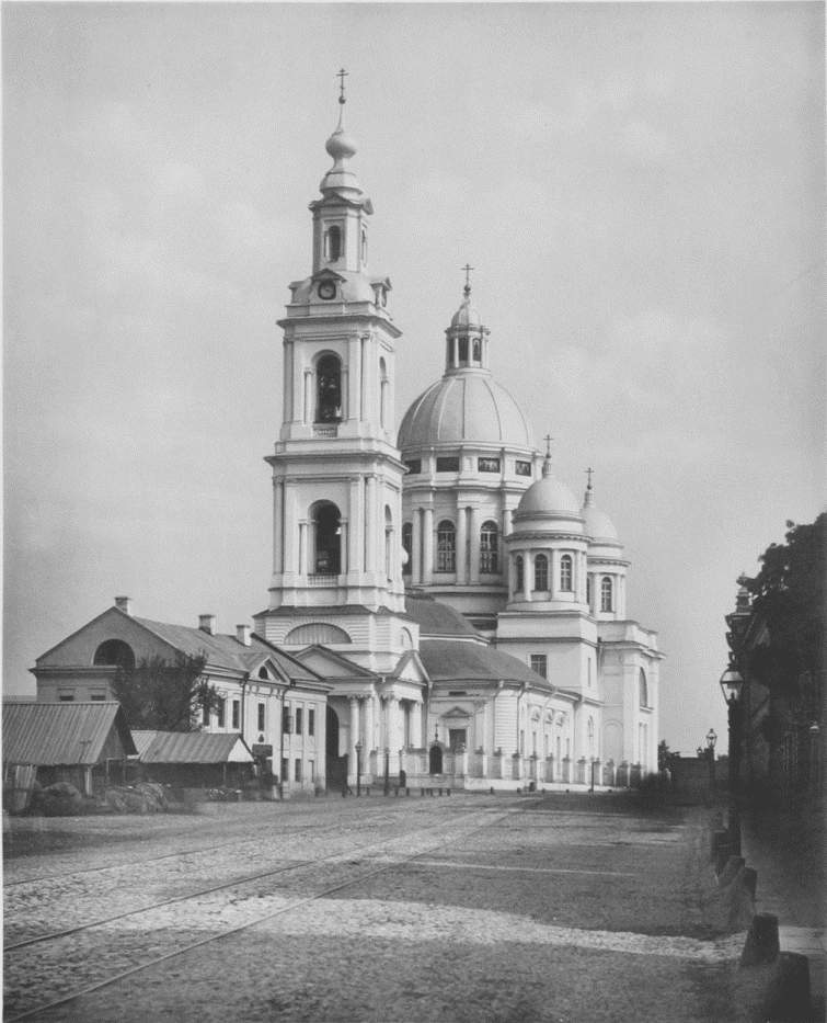 Epiphany cathedral in Yelokhovo (Moscow). 1835-1845, architect: Yevgraf Tyurin